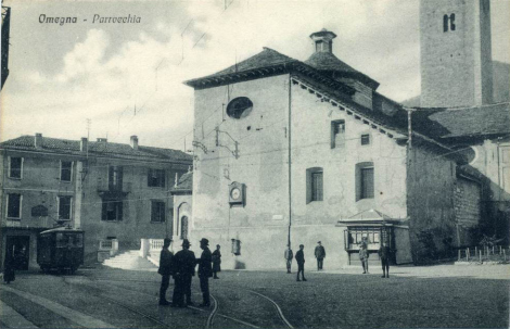 Omegna, church.jpg